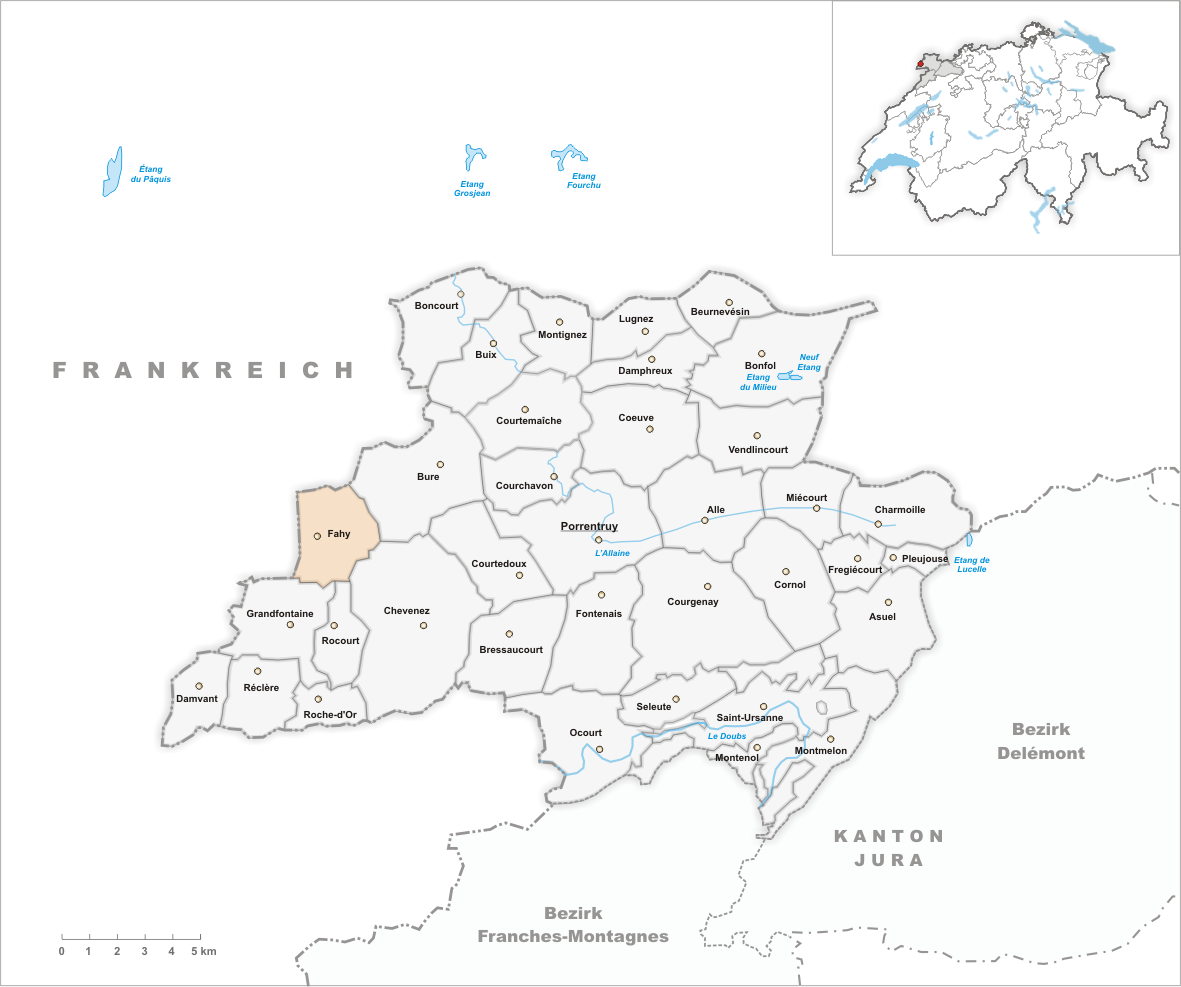 Municipality Fahy Artist: Tschubby